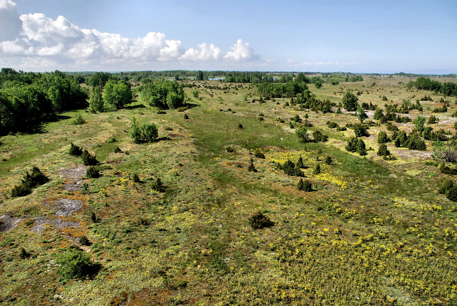 View over Suur-Pakri landscapeLatviešu: Lielās Pakri salas ainava